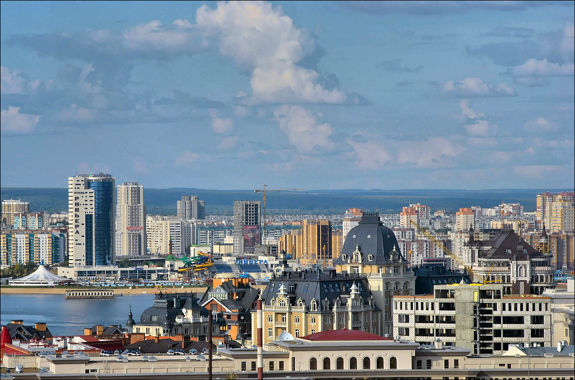 Kazan skyline